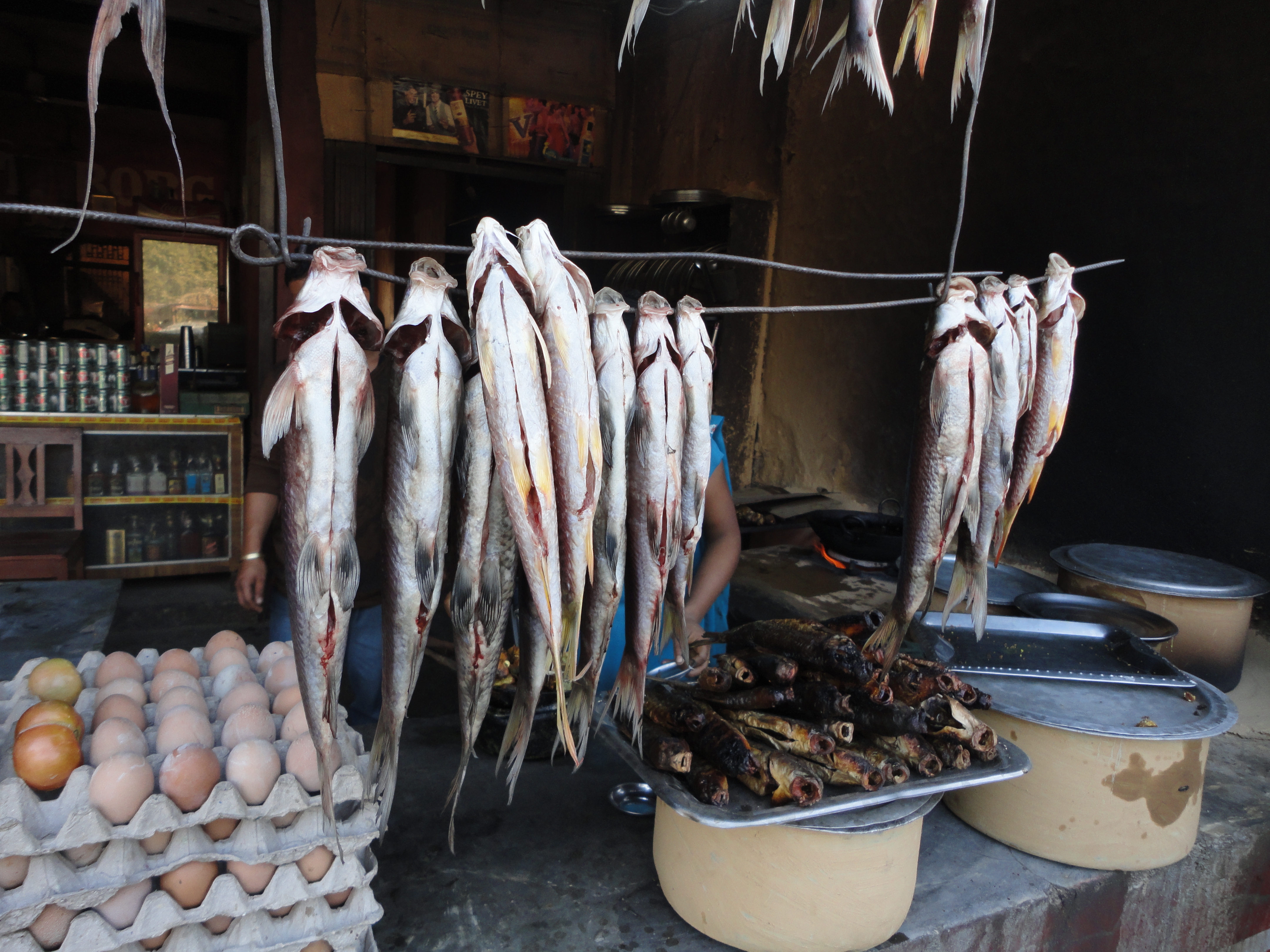 Fish from Karnali River on sale in a shop at Chisapani, Kailali.